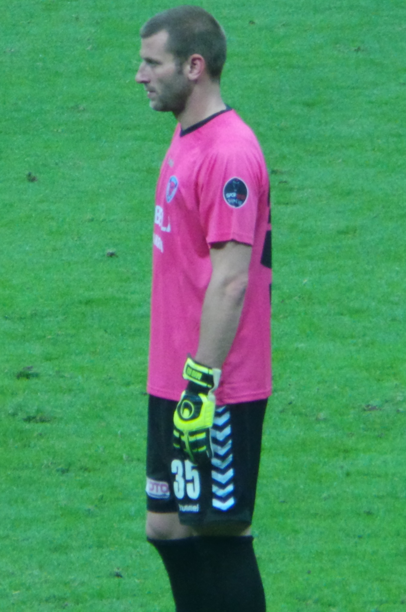 Bicik with MİY